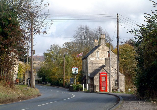 The Woolpack, Slad, Gloucestershire This road is B4070. The author Laurie Lee (1914-1997) lived and died in the village. Of his many books, perhaps 'Cider With Rosie' is the most well-remembered title.